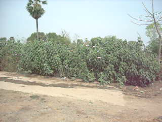 it is so beautiful.